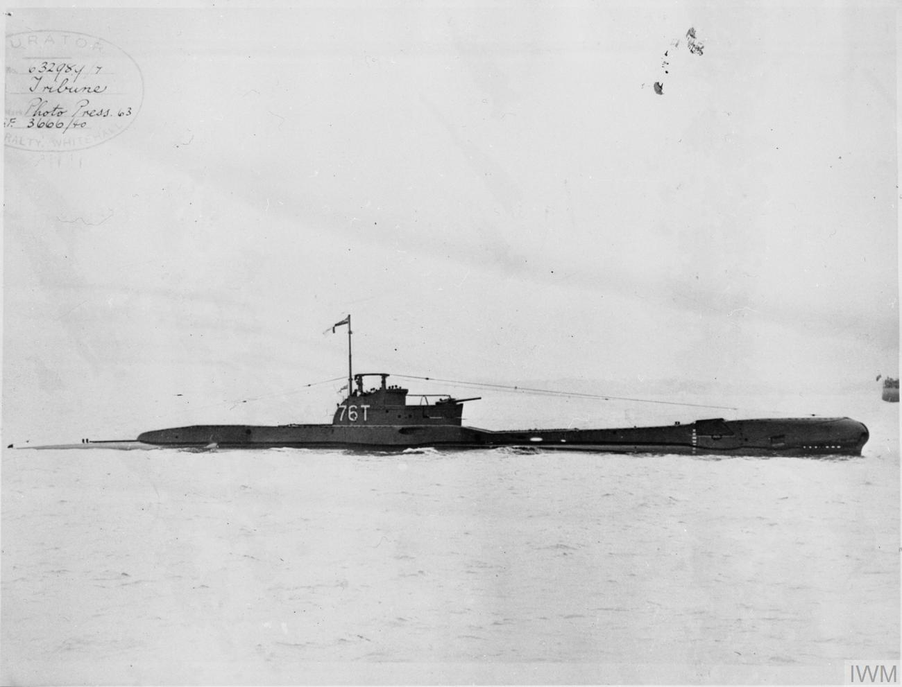 British T class submarine HMSM TRIBUNE underway.